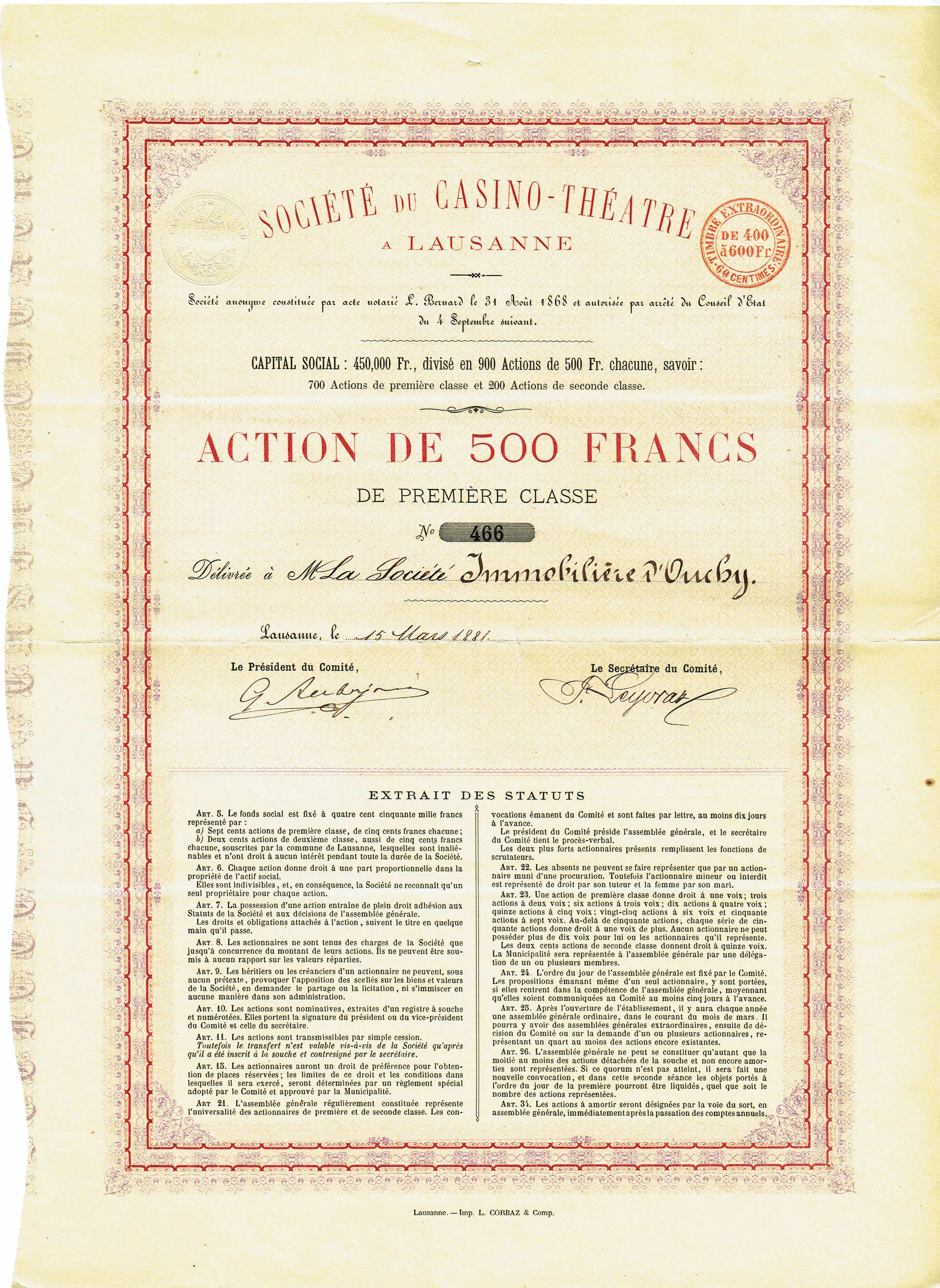 Share of the Soc. du Casino-Théâtre a Lausanne, issed 15. March 1881